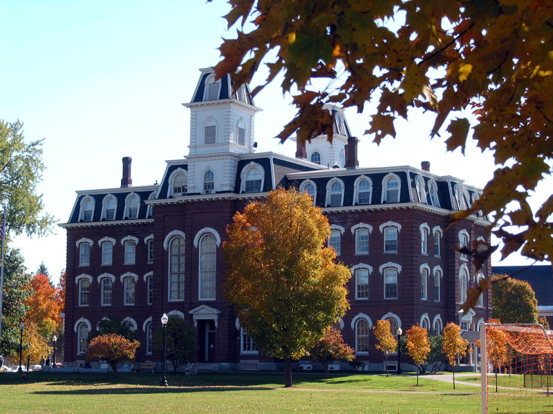 Vermont College of Fine Arts, Montpelier, Vermont